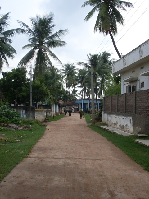 Mallavolu